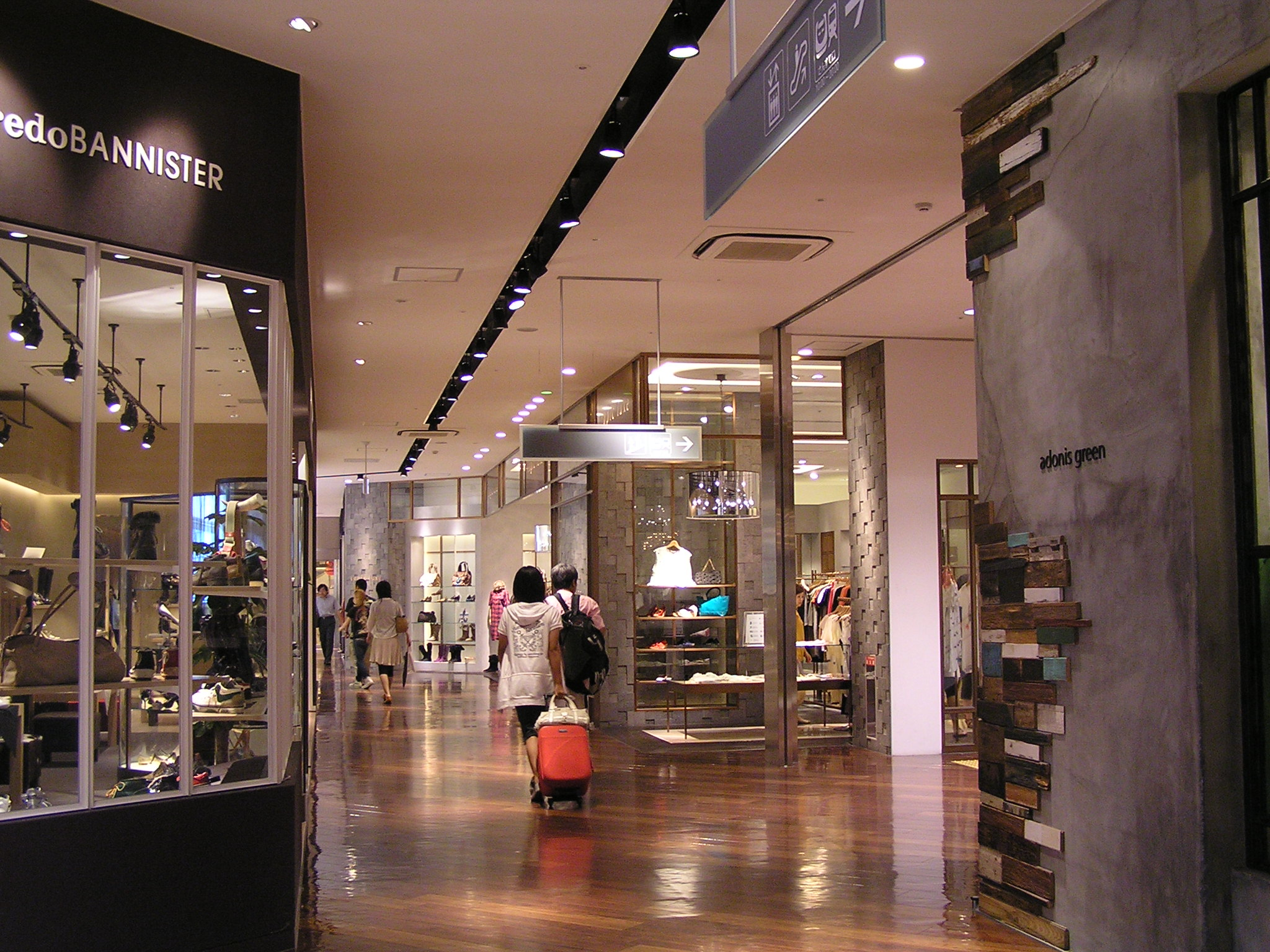 The first floor in the Sun Station Terrace north pavilioｎ